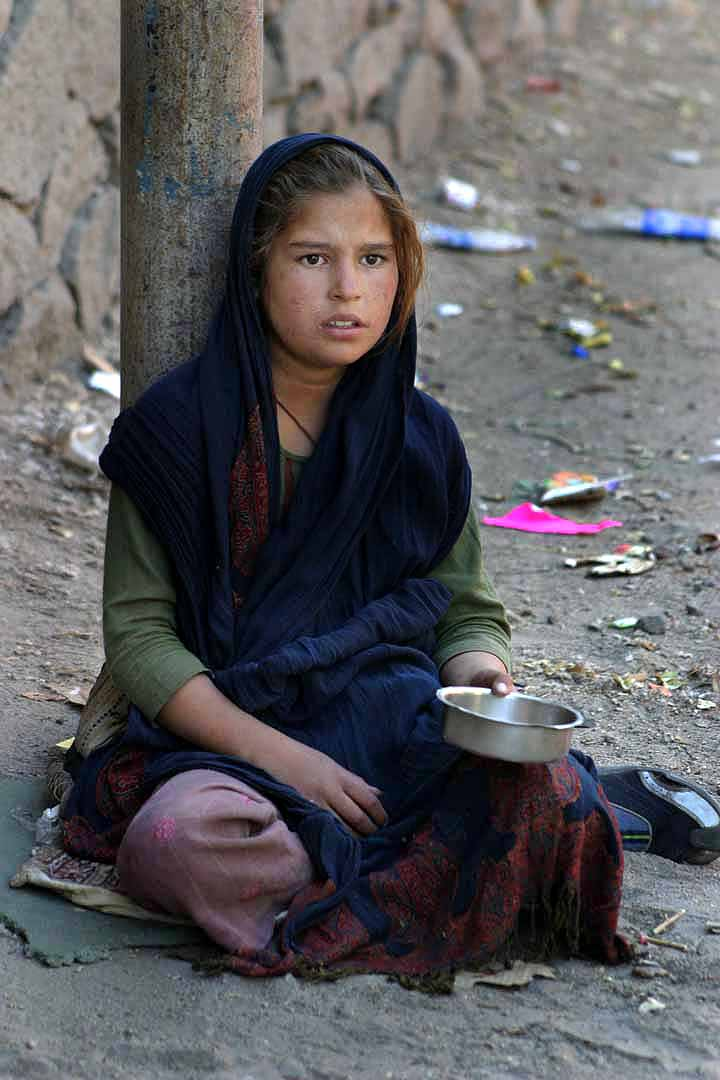 Indian girl begging.